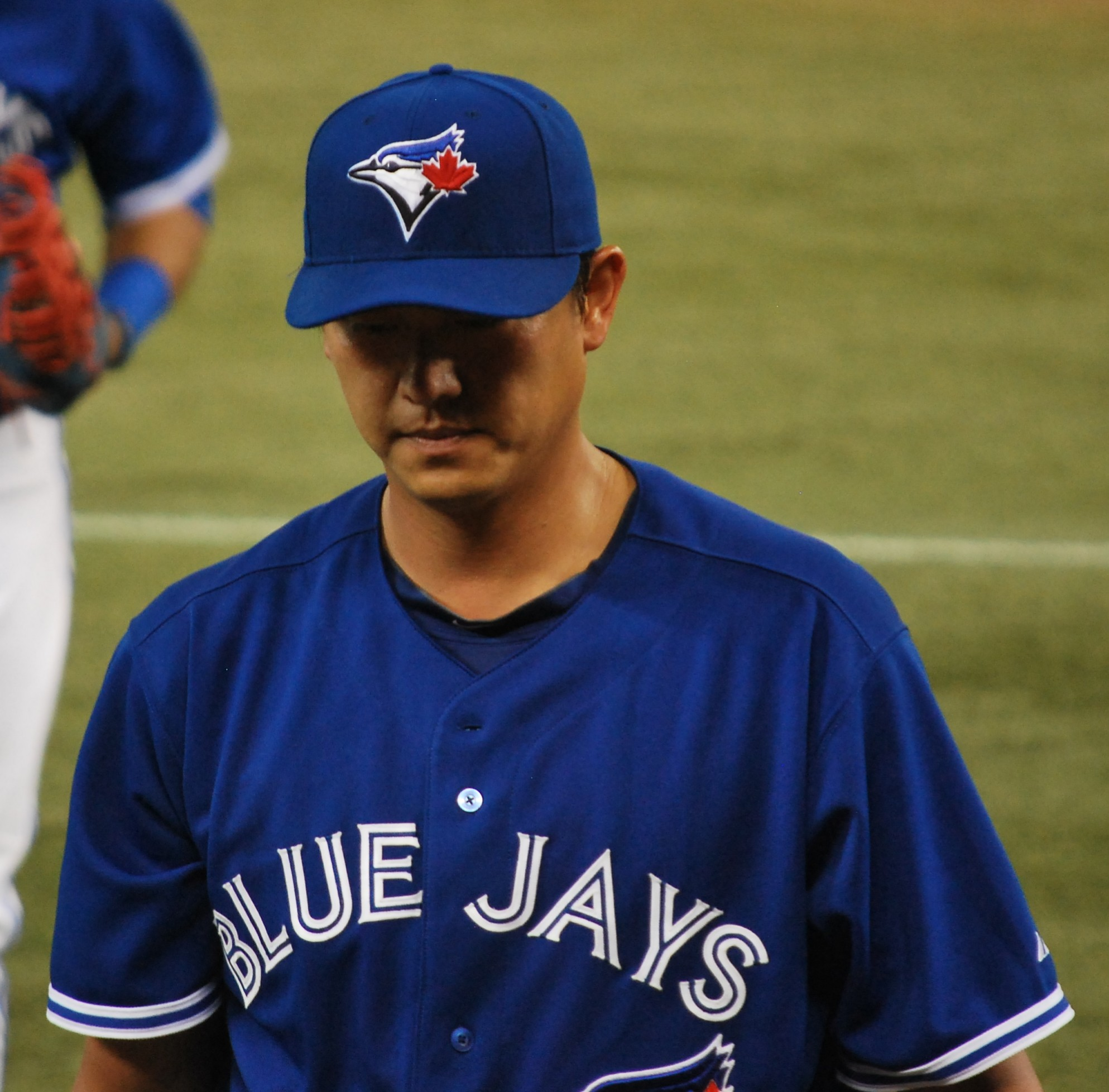 Chien-Ming Wang